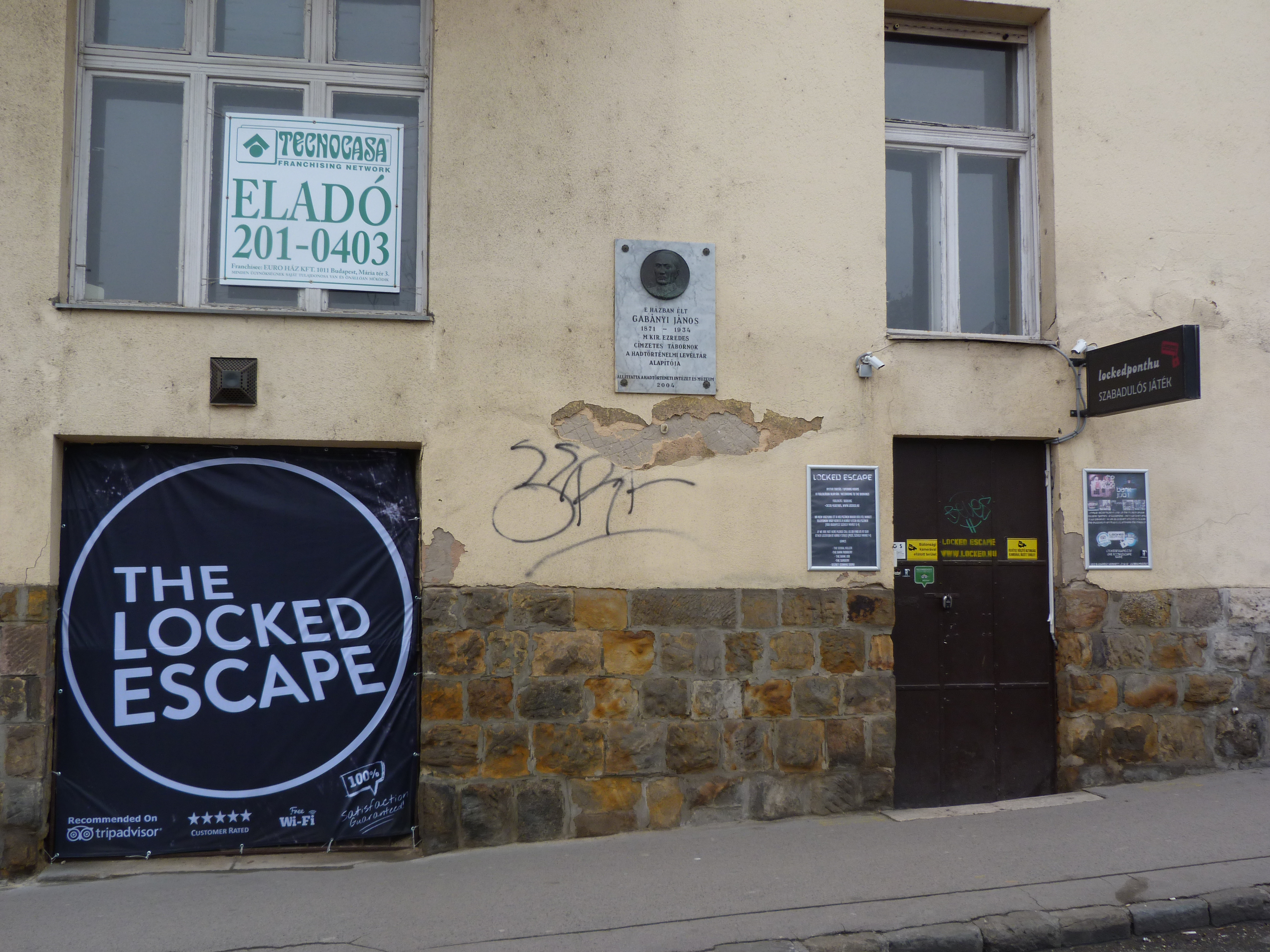 Live on the 7th of December, 2015. The Locked Escape. Budapest I.ker. Vérmező út 10-12 szám. Games: The serial killer, the bank robbery, the bank job, the surgery, secret. Sources